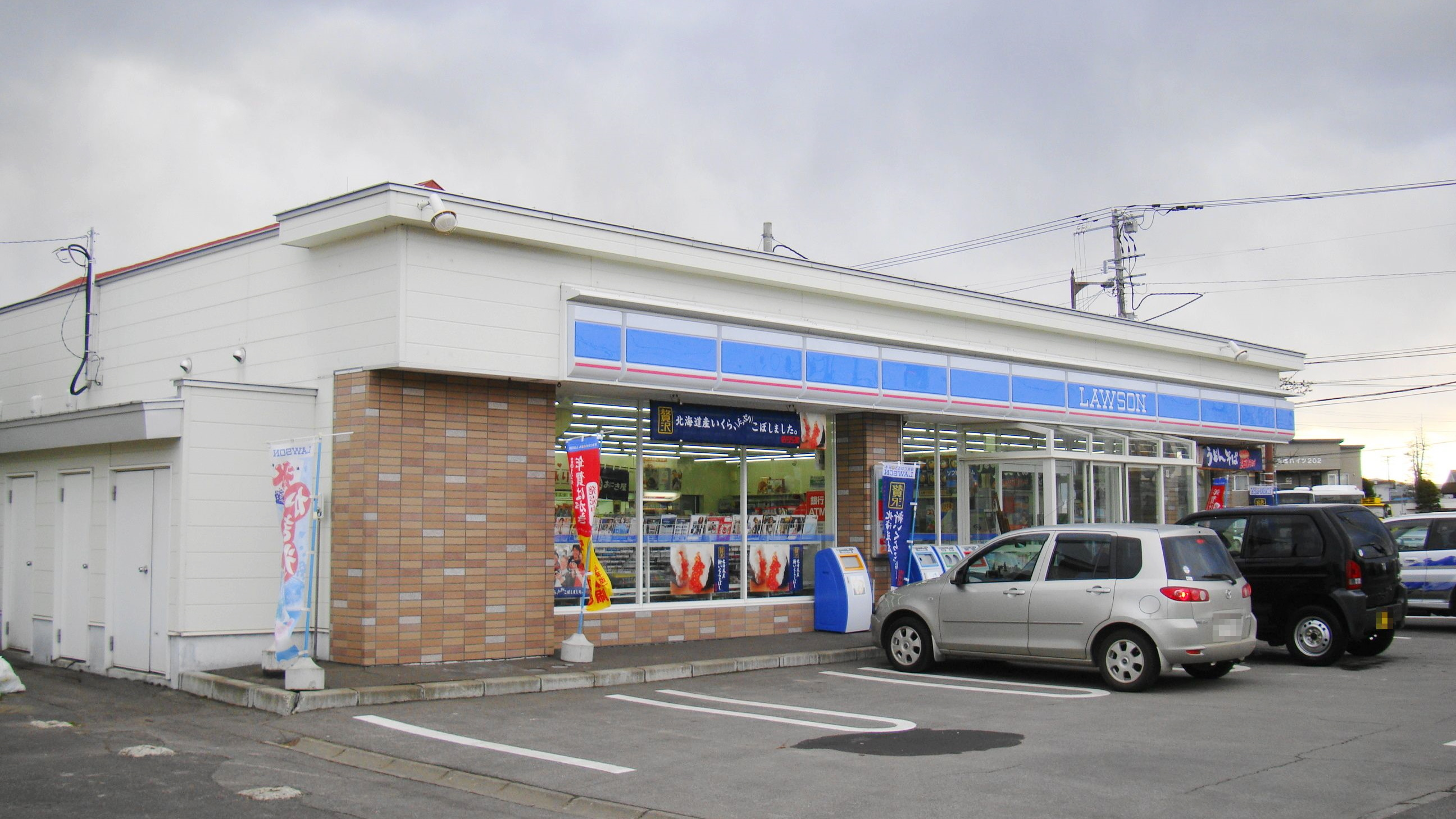 Lawson Shari Asahichō